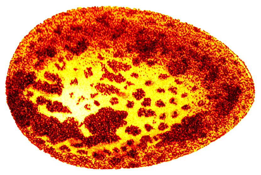 French Wikipedia Alchemy portal symbol